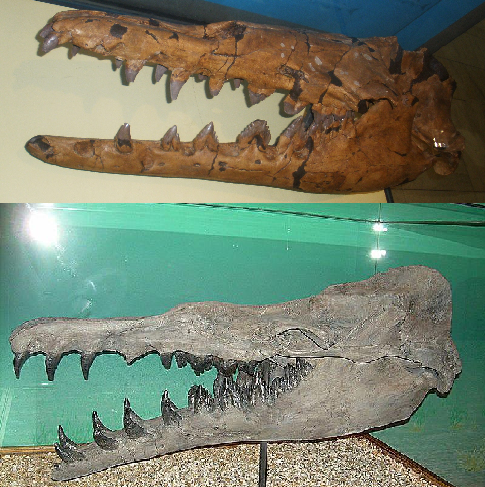 basilosaurus isis and cetoides skulls compared next to each others skulls